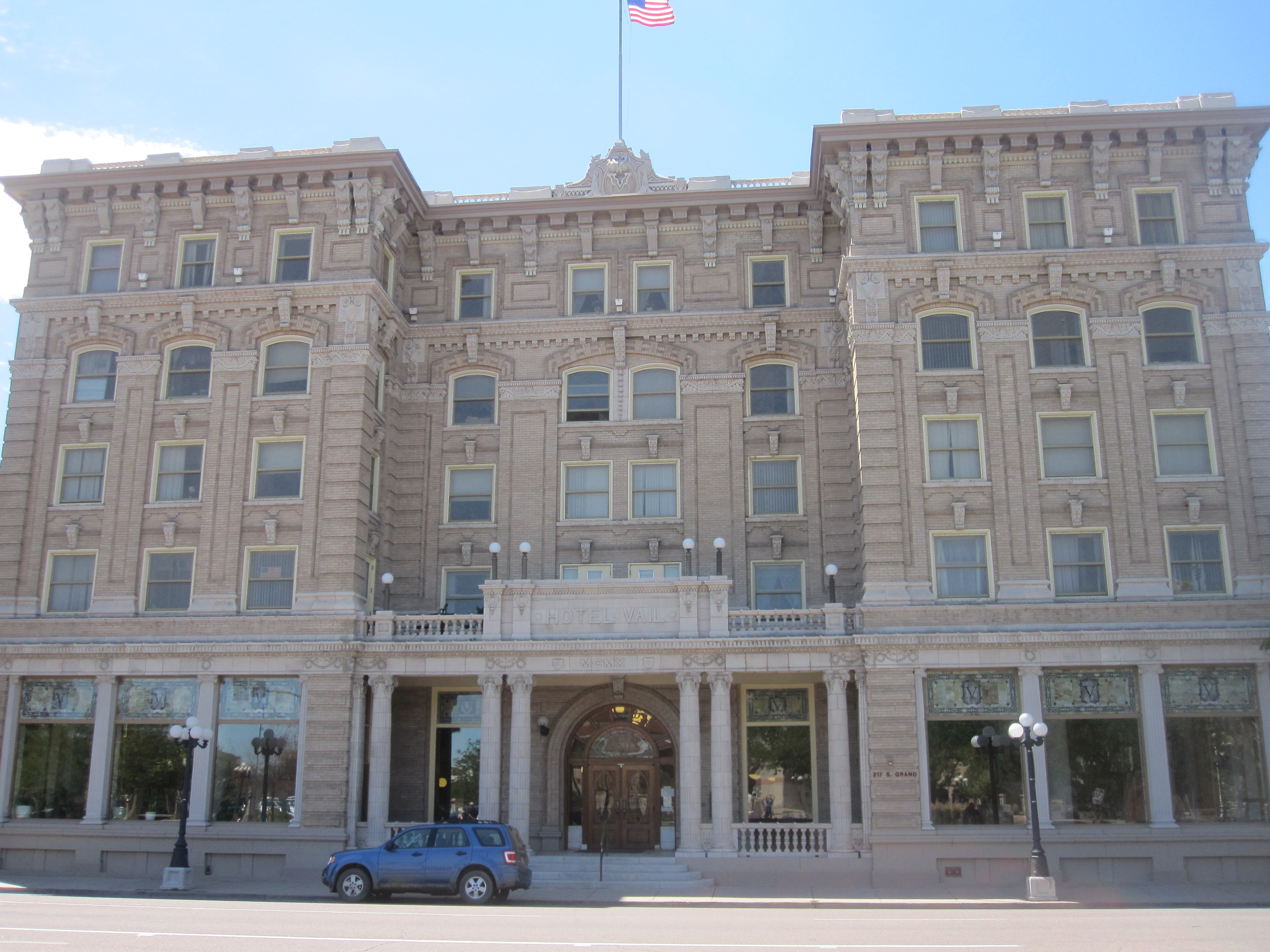 I took photo with Canon camera in Pueblo, CO.